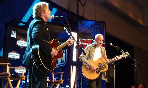 The Who's Pete Townshend (r) and Roger Daltrey (l) will provide the halftime entertainment for the upcoming Super Bowl.